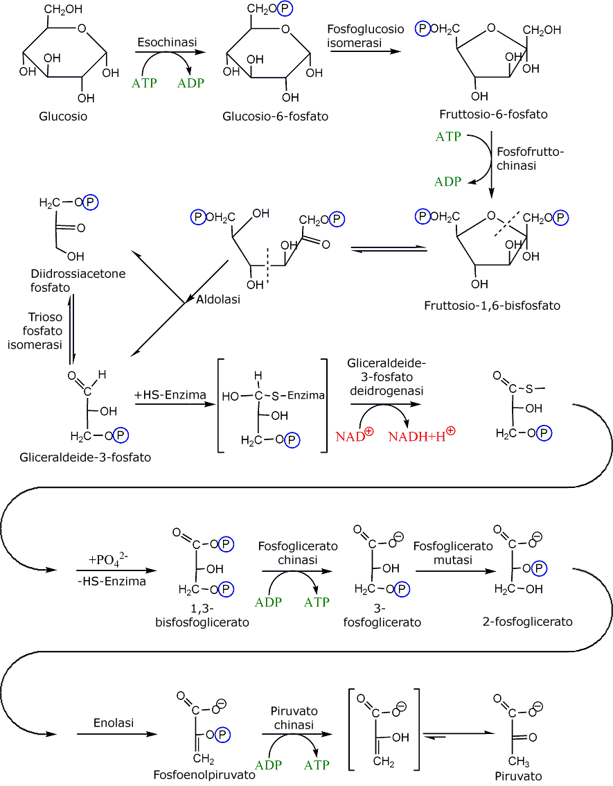 Glycolyse translated in Italian